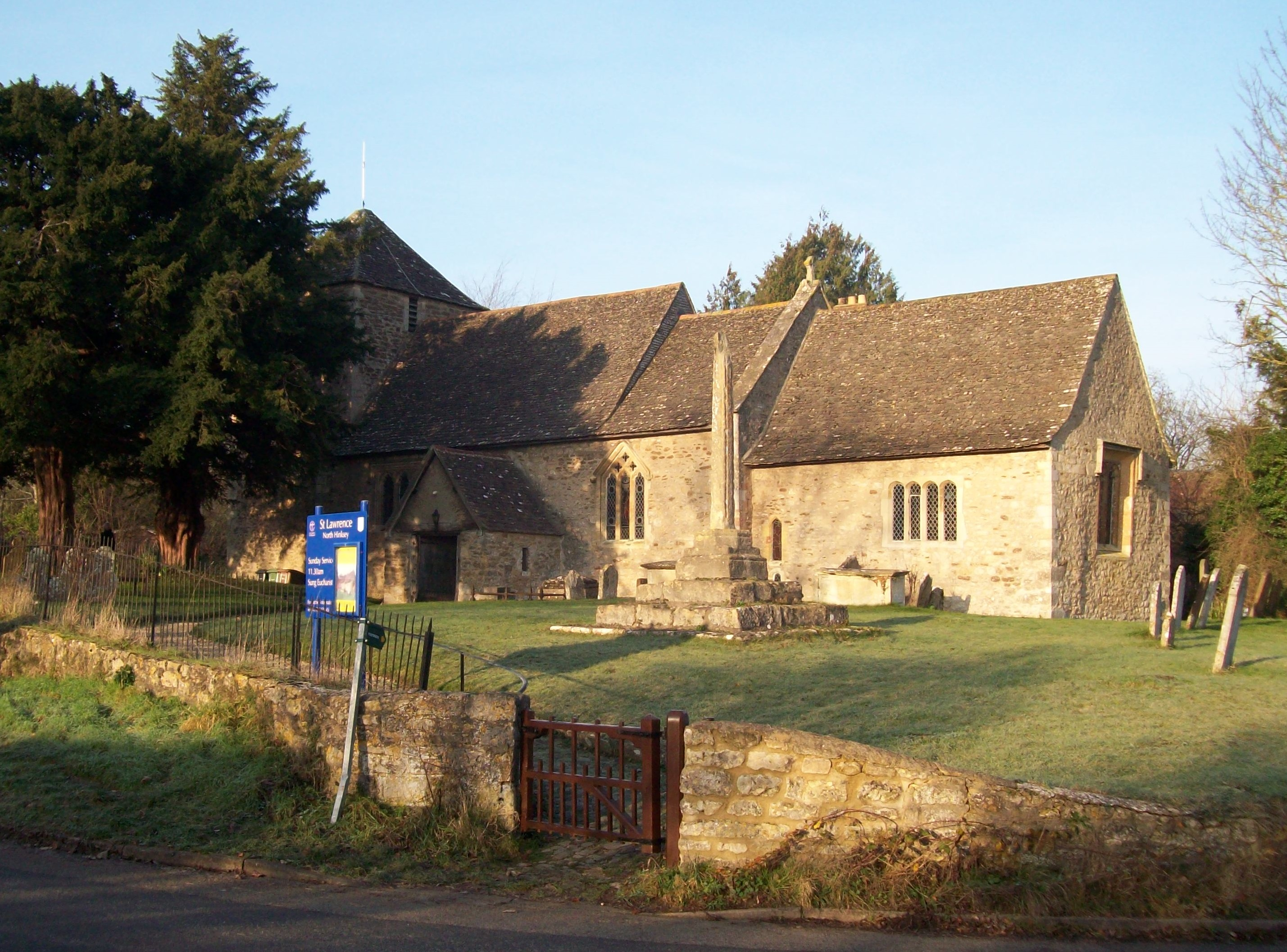 St Lawrence's parish church, North Hinksey, Oxfordshire (formerly Berkshire) seen from east-southeast, showing the base and shaft of the churchyard cross